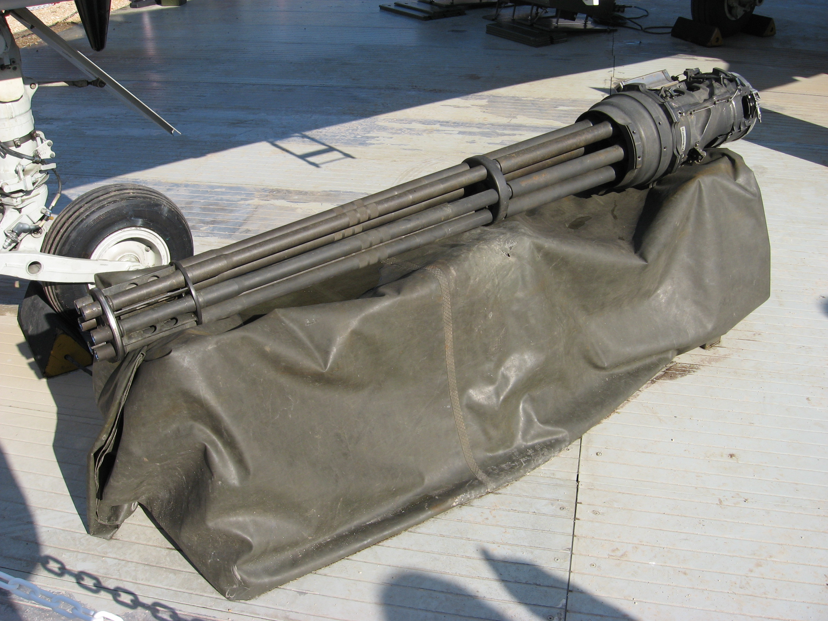 M61 Vulcan rotatory cannon of an Italian Air Force AMX